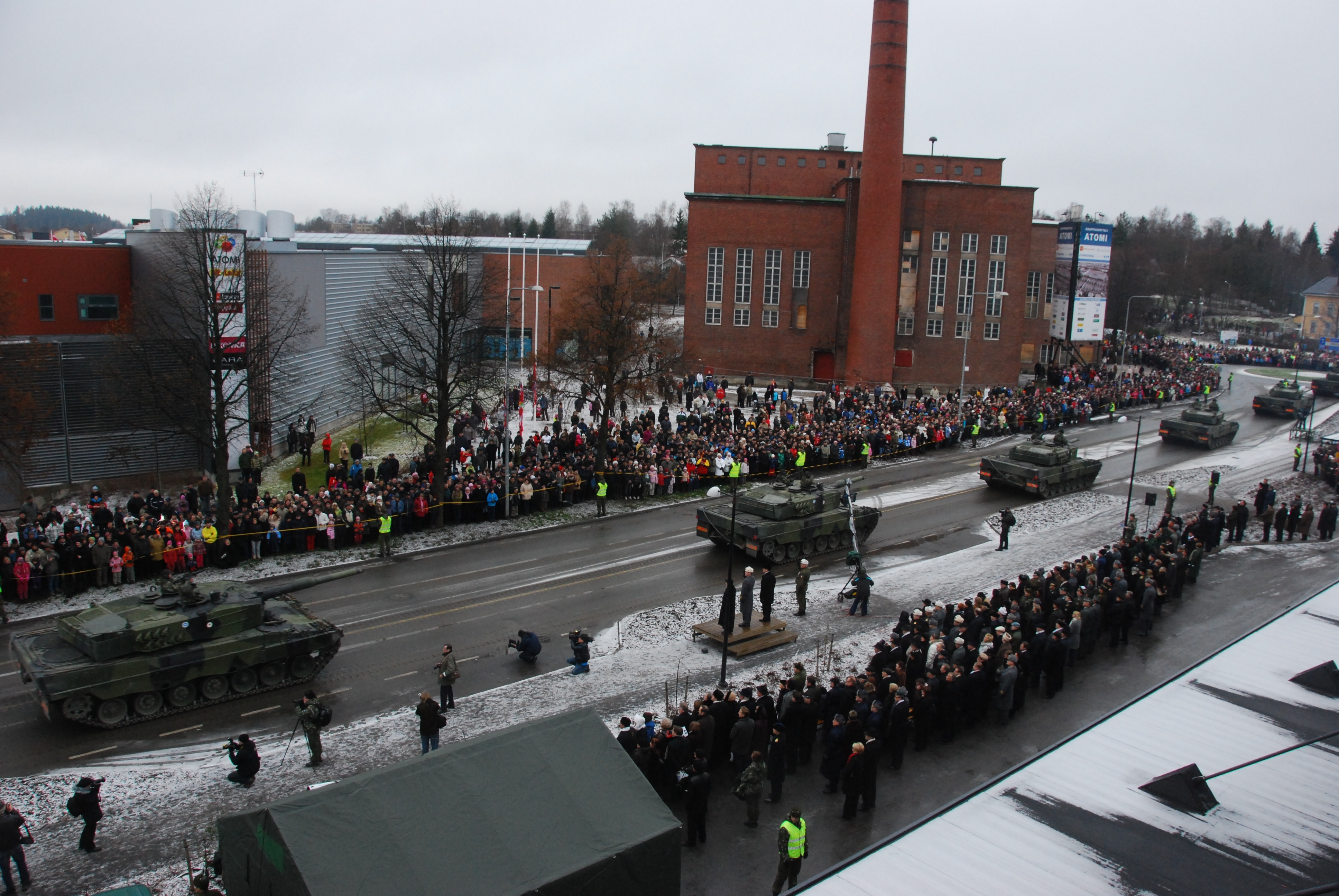 Finnish Leopard 2 tanks at the Independence Day Parade 2009 at Riihimäki.